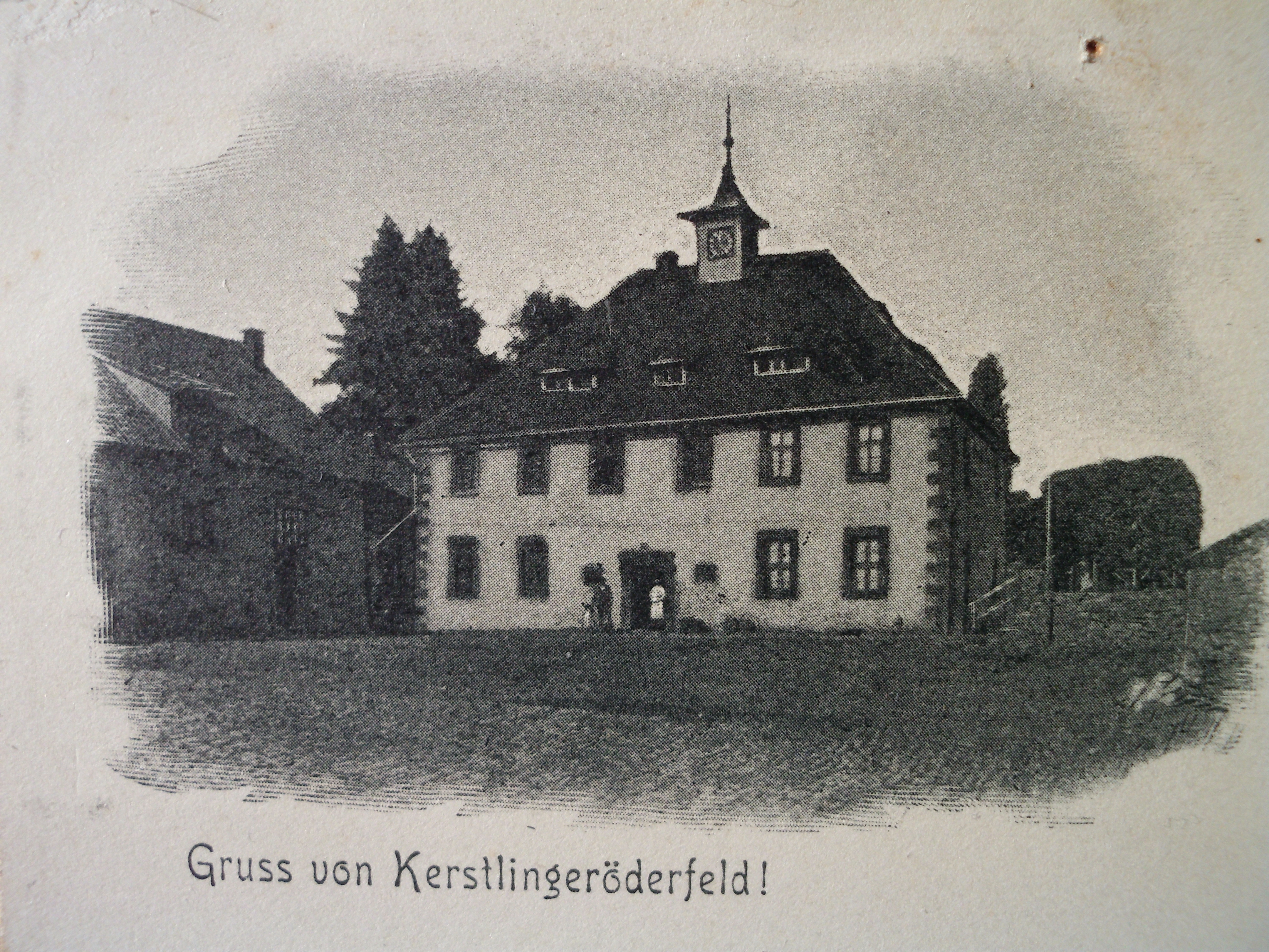 This is from a postcard from the second half of the 19th century. The house has been ruined after 1961